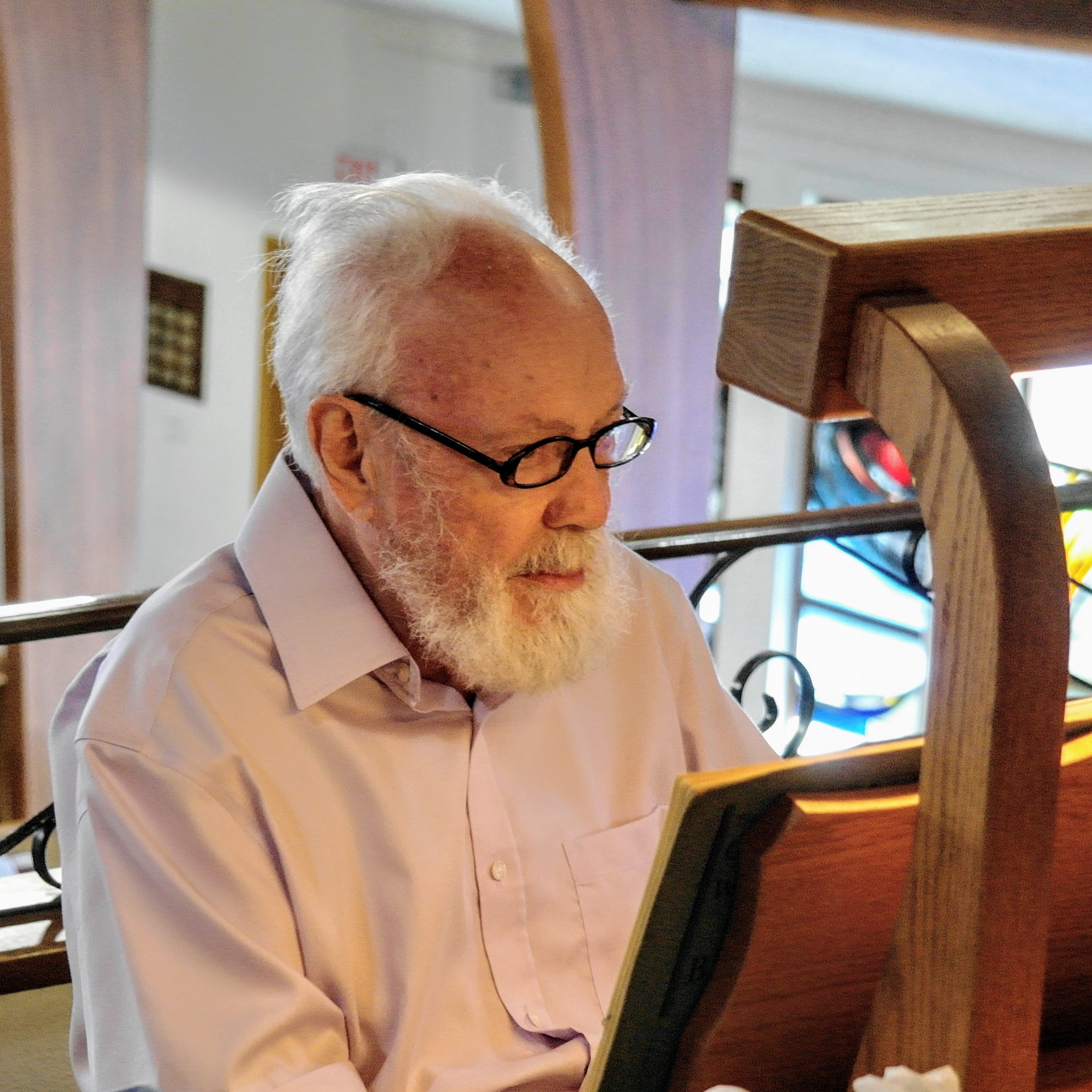 David Fenwick Wilson at the organ (Létourneau Opus 19) in Saint James Anglican Church, August 26, 2018